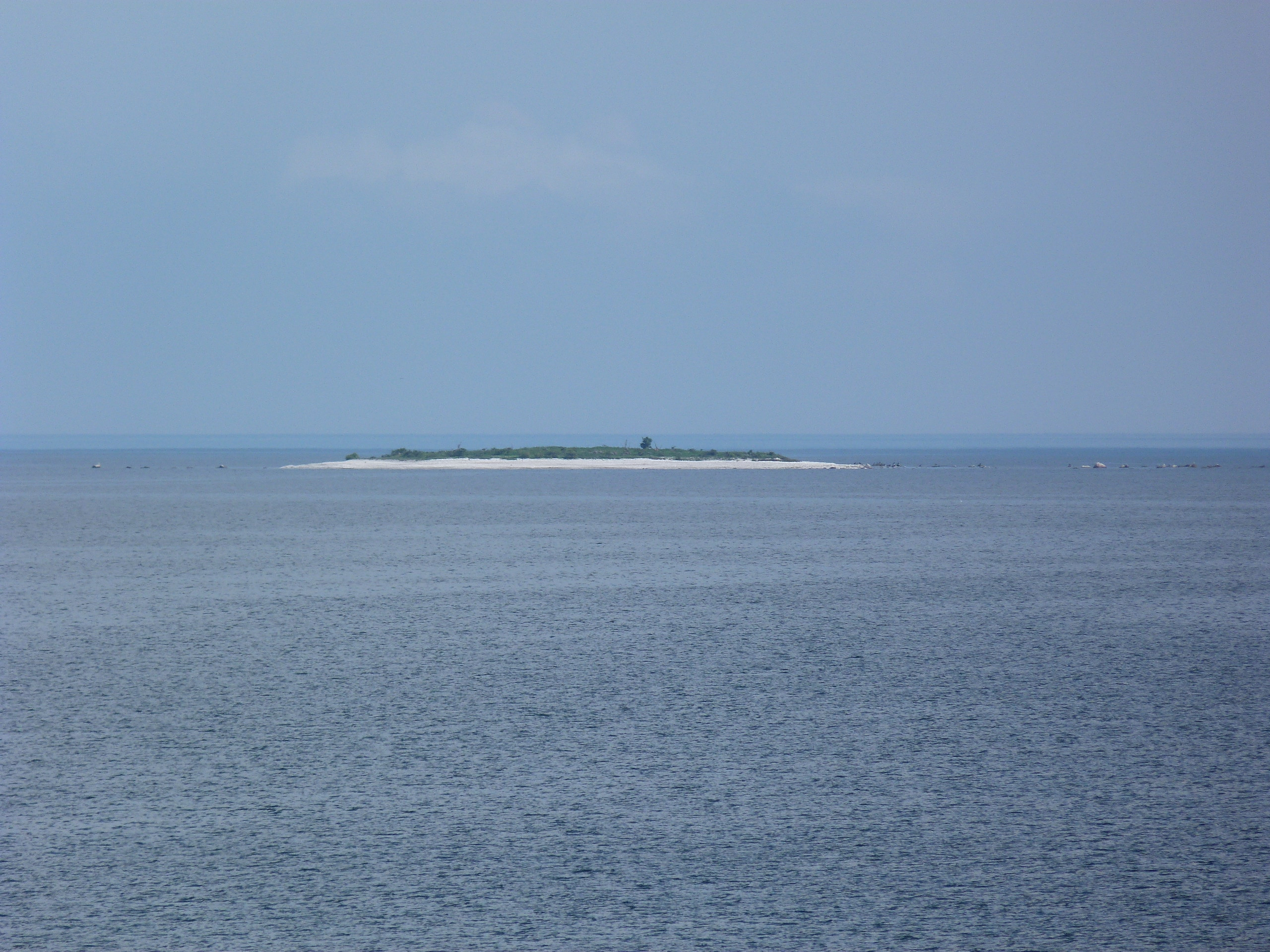 Hojskär, island in the Slite archipelago